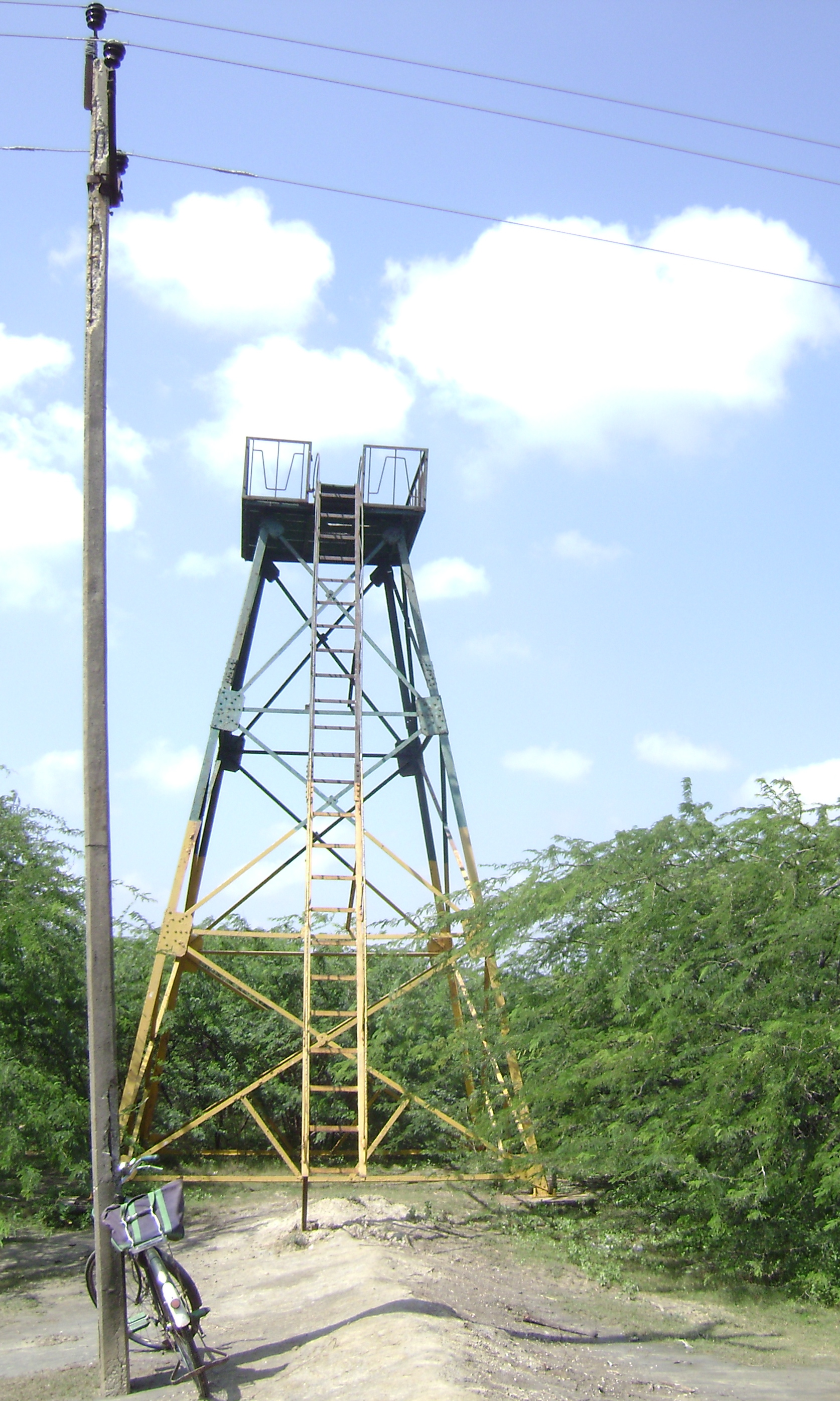 Point Calimere Wildlife and Bird Sanctuary, rickety steel tower about .5 km (0.31 mi) west of the road near Muniappan Lake.